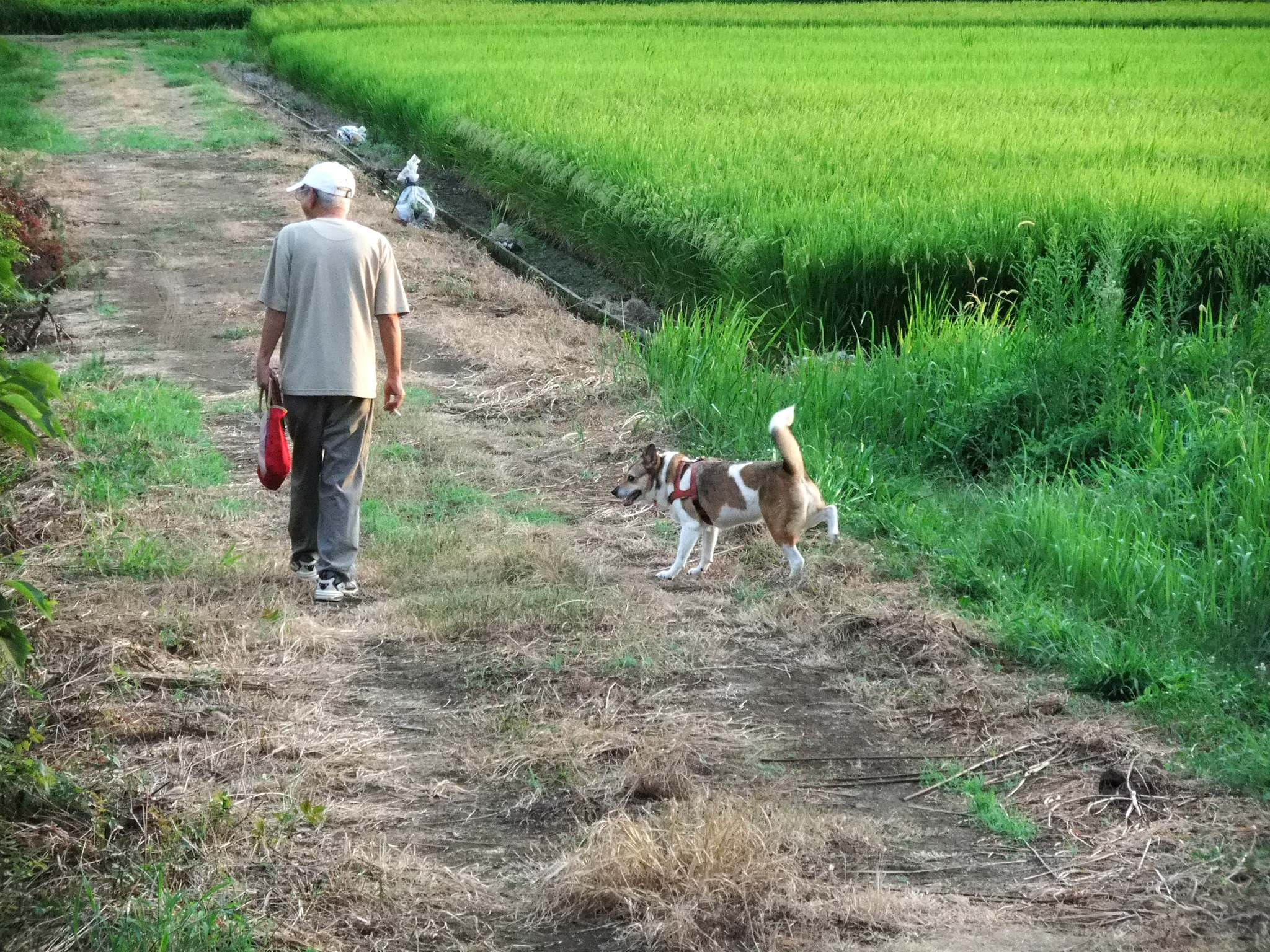 Uchimaki Park in August.